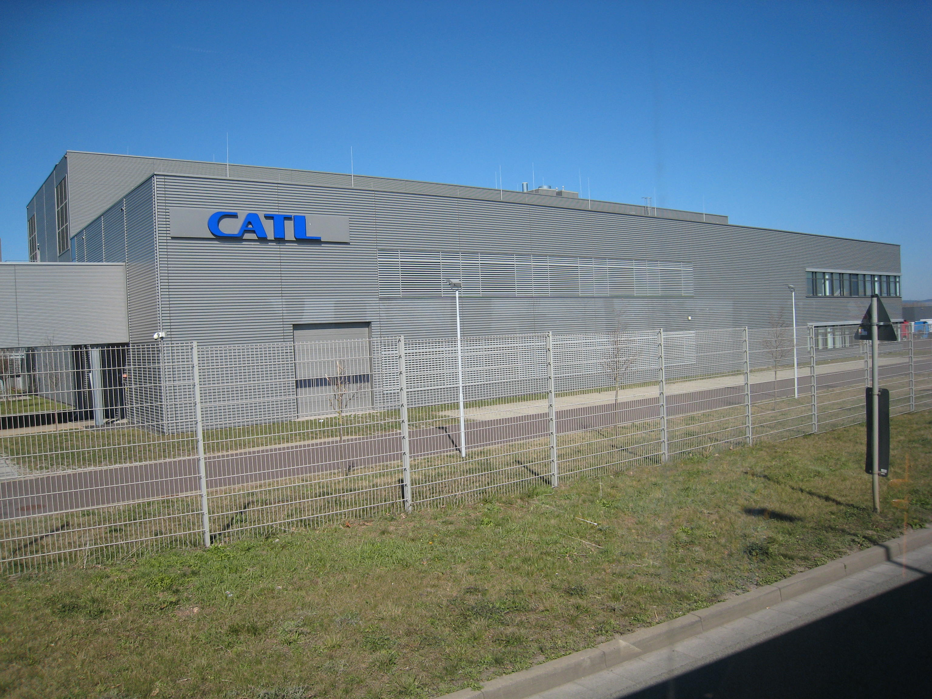 CATL in Arnstadt